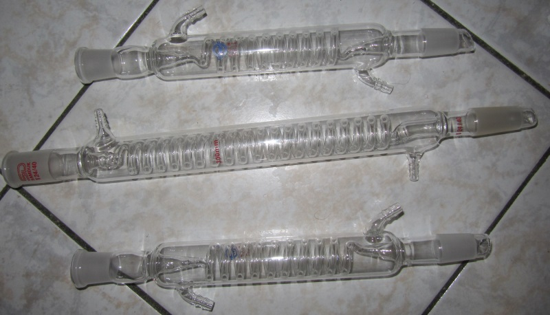 two 200mm glass graham condensers and a 300mm one (also a graham condenser model)